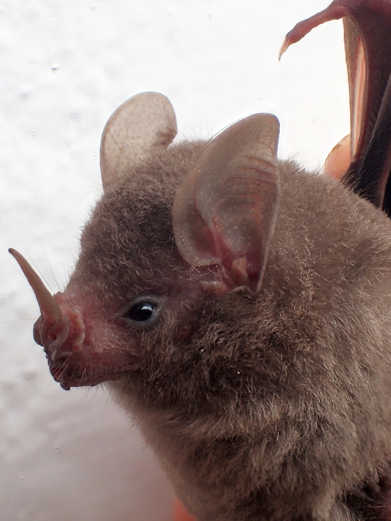 Rhinophylla pumilio captured in Santana do Araguaia, Brazil